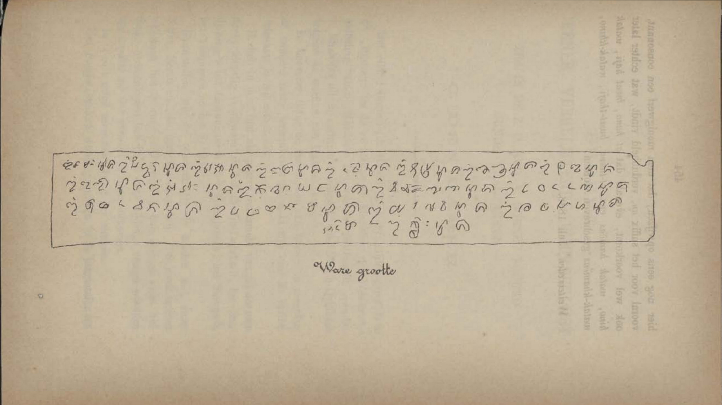 Abecedarium of Kawi Script composed as mantras in a gold plate found in Village of Jeruk in Regency of Klaten on March 1888.